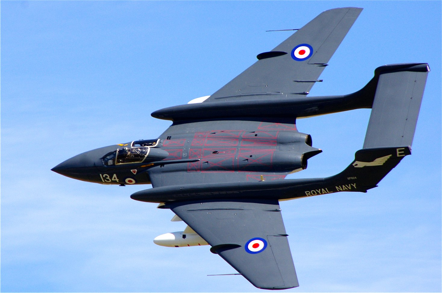 "Fly to the Past" - Oxford Airshow